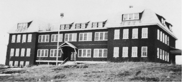 A large 2-3 story red brick building, with white windows and a white roof.